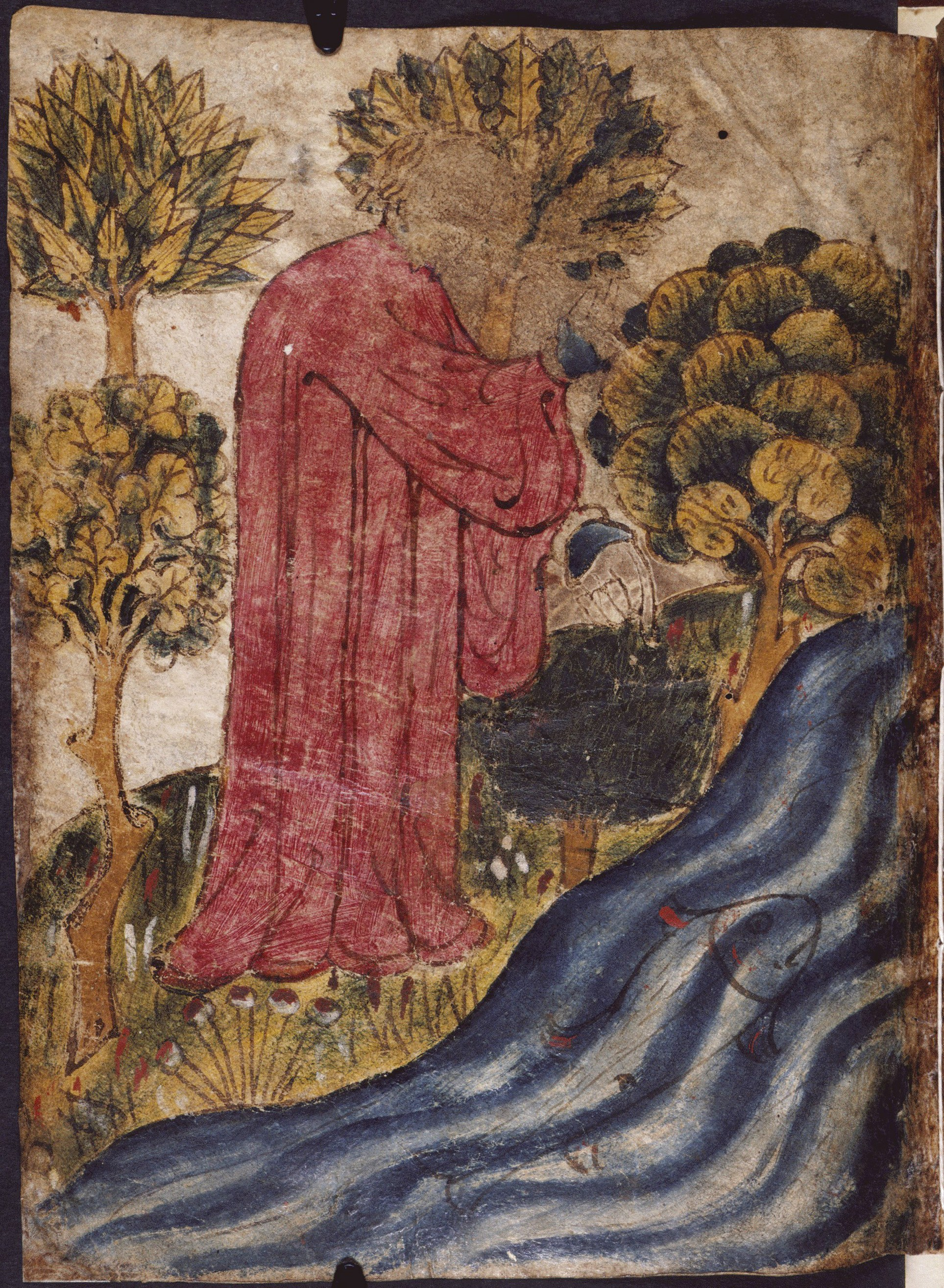 Illustration to an English manuscript of Pearl, circa 1400. Pearl is an anonymous 14th-century poem, written in Middle English. The poem describes an allegorical dream/vision, and alludes to Jesus' parable of the Pearl. This painting is the second of a series of four miniatures illustrating prominent aspects of the vision: 1) falling asleep in this world; 2) wandering in a dream/vision garden; 3) encountering his guide, the Pearl maiden, on the far side of a river; 4) being shown the heavenly Jerusalem.